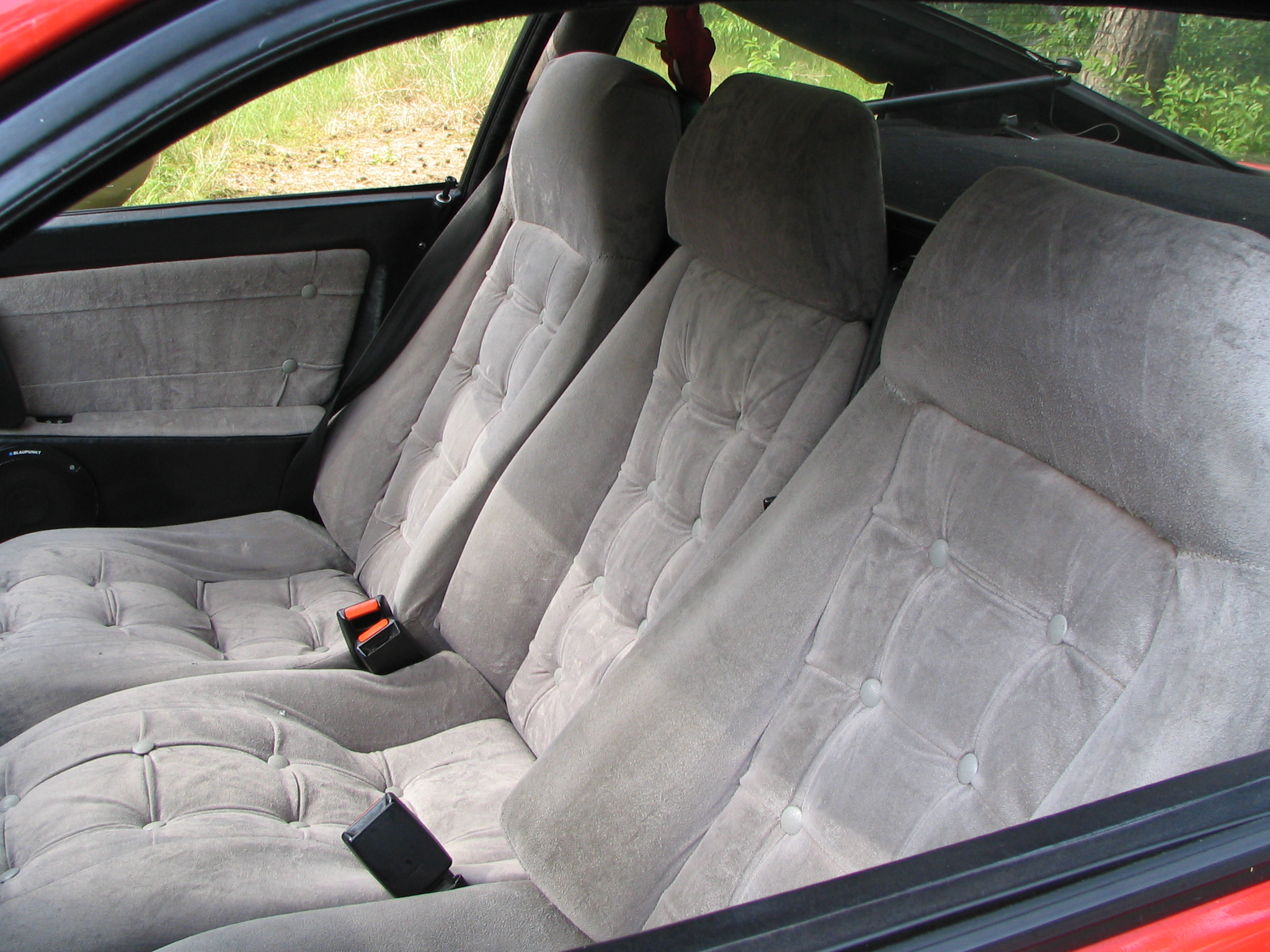 Picture of the interior of my Matra Murena sports car, showing the unique 3-seat setup.